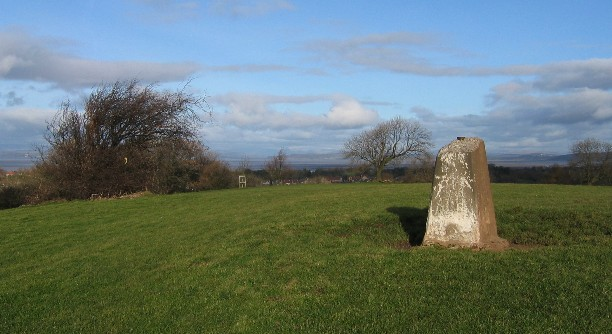 Triangulation pillar at Torrisholme Barrow, near Morecambe, Lancashire, England. Looking north. OSGB36: SD459641, WGS84: 54:4.2423N 2:49.6192W